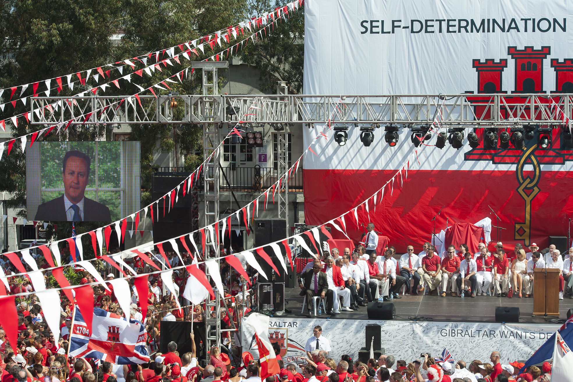 Gibraltar National Day_022